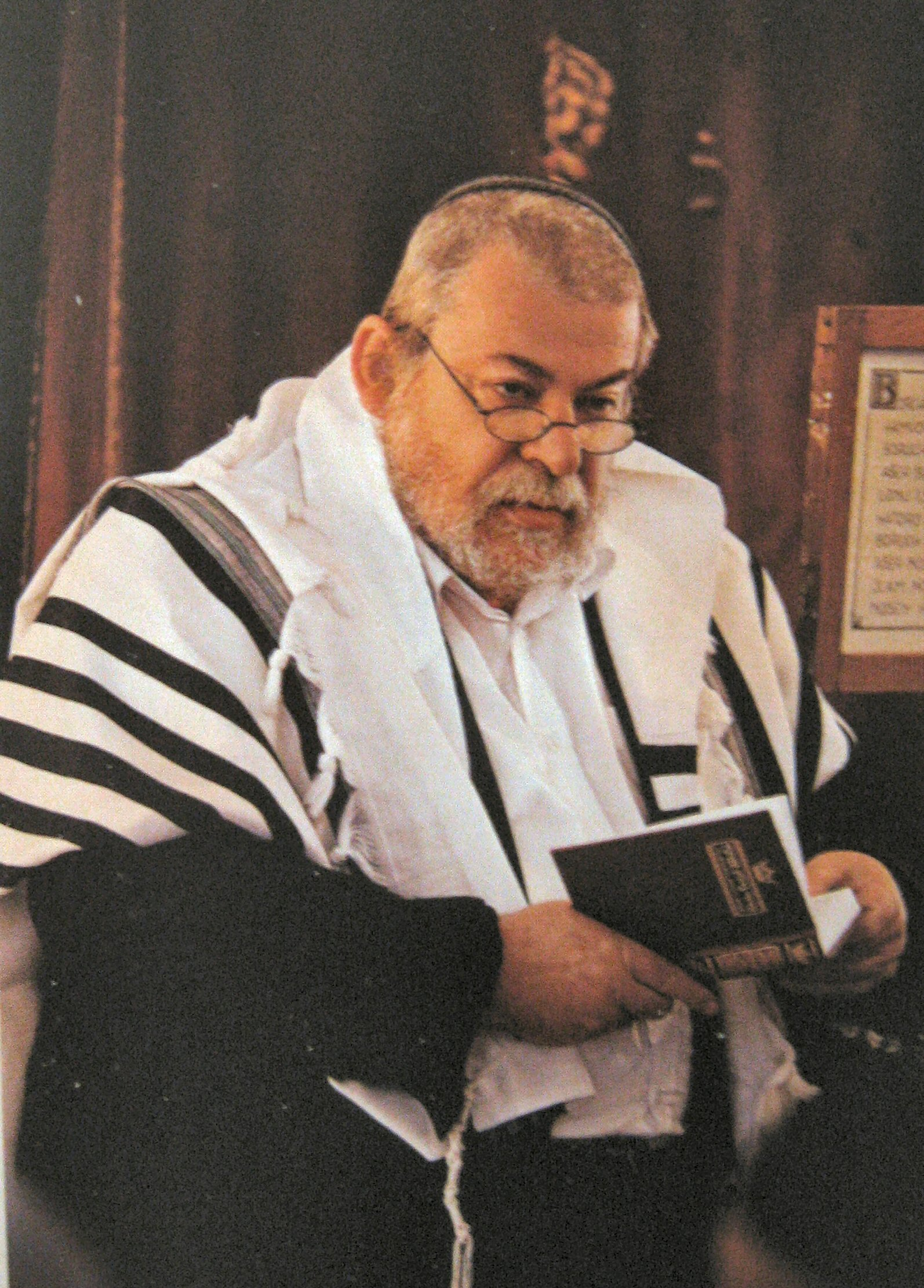 Chief Rabbi of the Czech Republic Karol Sidon